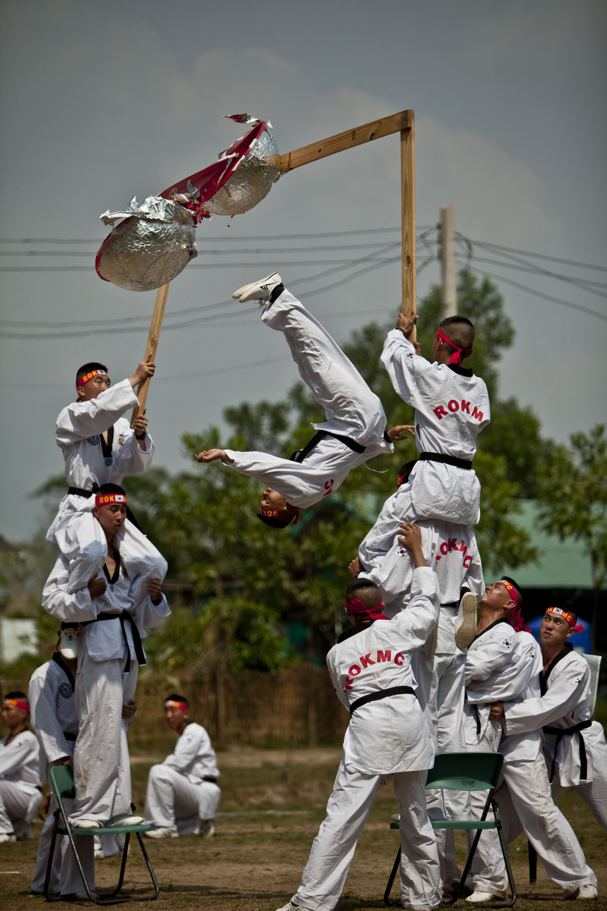 Republic of Korea Marines conducts Taekwondo, a form of martial arts during the sports cultural exchange at the training area here Feb. 15 as part of Cobra Gold 2012. Cobra Gold is an annual Royal Thai and U.S. co-hosted multinational exercise designed to advance security throughout the Asia-Pacific region and enhance interoperability with participating nations. (U.S. Marine Corps photo by Sgt. Brandon L. Saunders/released)